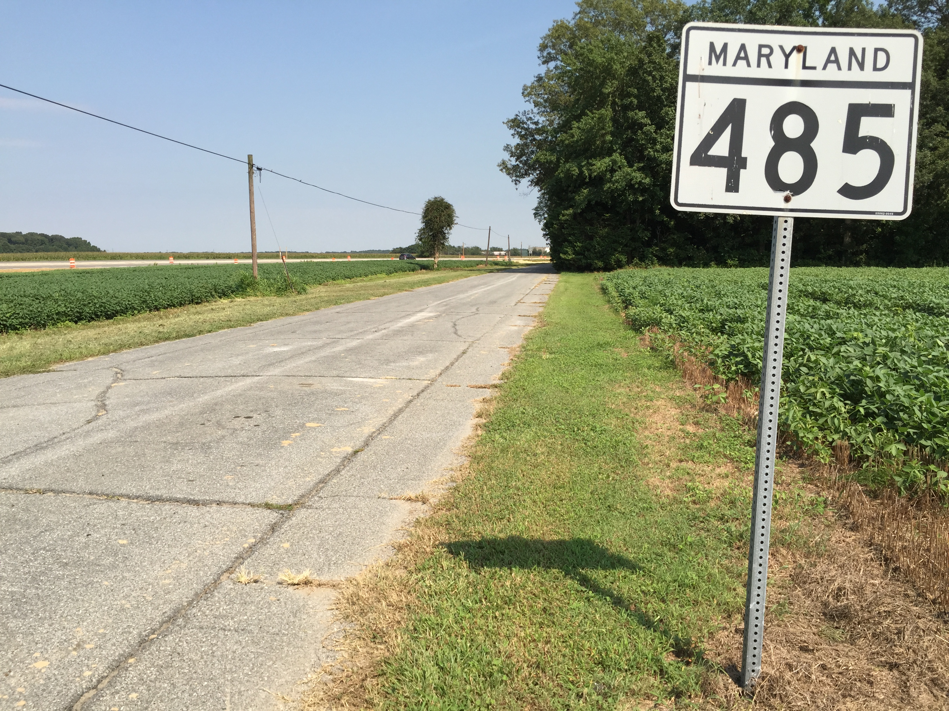 View east along Maryland State Route 485 (Shady Oak Lane) at Saathoff Road in Downes, Caroline County, Maryland